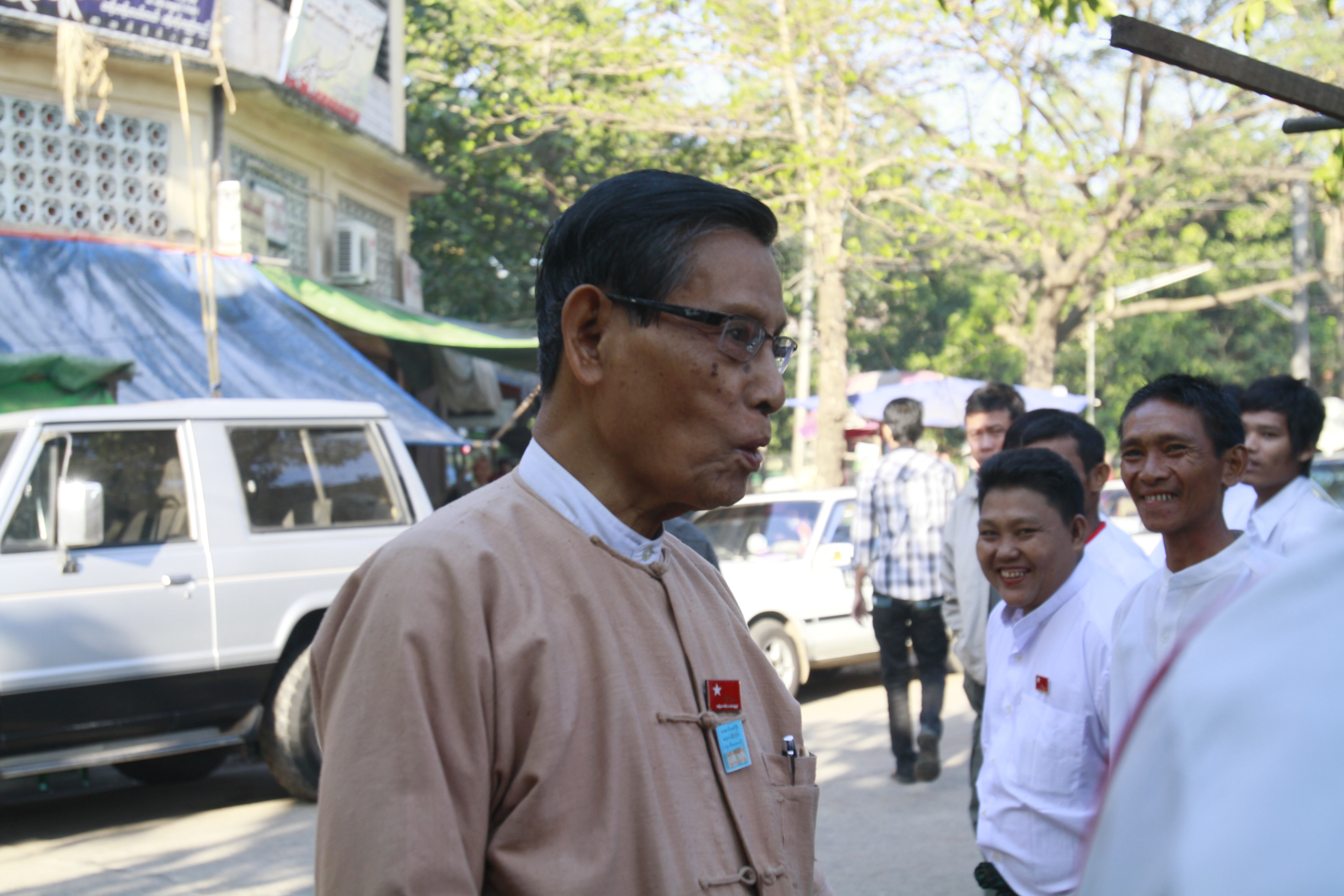 Tin Oo, chair of the National League for Democracy Party patron committee, arrives to attend a ceremony in Yangon, Myanmar, 18 January 2012.မြန်မာဘာသာ: အမျိုးသား ဒီမိုကရေစီအဖွဲ့ချုပ် အလုပ်အမှုဆောင် ဦးတင်ဦး ရန်ကုန်မြို့ရှိ အခမ်းအနားတစ်ခုသို့ ဇန်နဝါရီလ ၁၈ ရက်၊ ၂၀၁၂ ခုနှစ်တွင် တက်ရောက်လာစဉ်